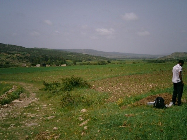 Mollic Calcaric Cambisol in Birki Ethiopia